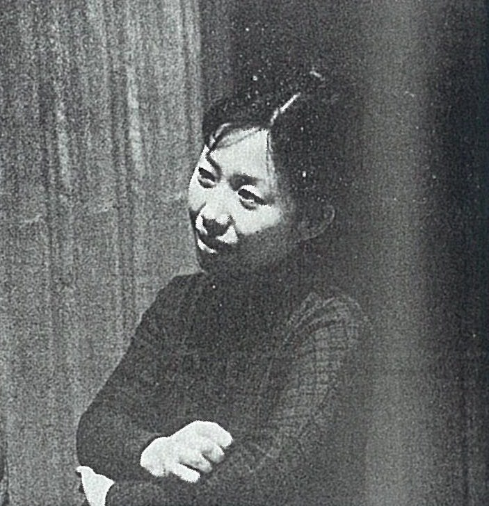 (Left) Kazuko Imai is a Japanese actress and voice actress. (Right) Kyoko Kishida Janpanese actress and voice actress.